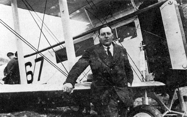 Photograph of Frederick Koolhoven and the British Aerial Transport F.K.26 'Commercial'